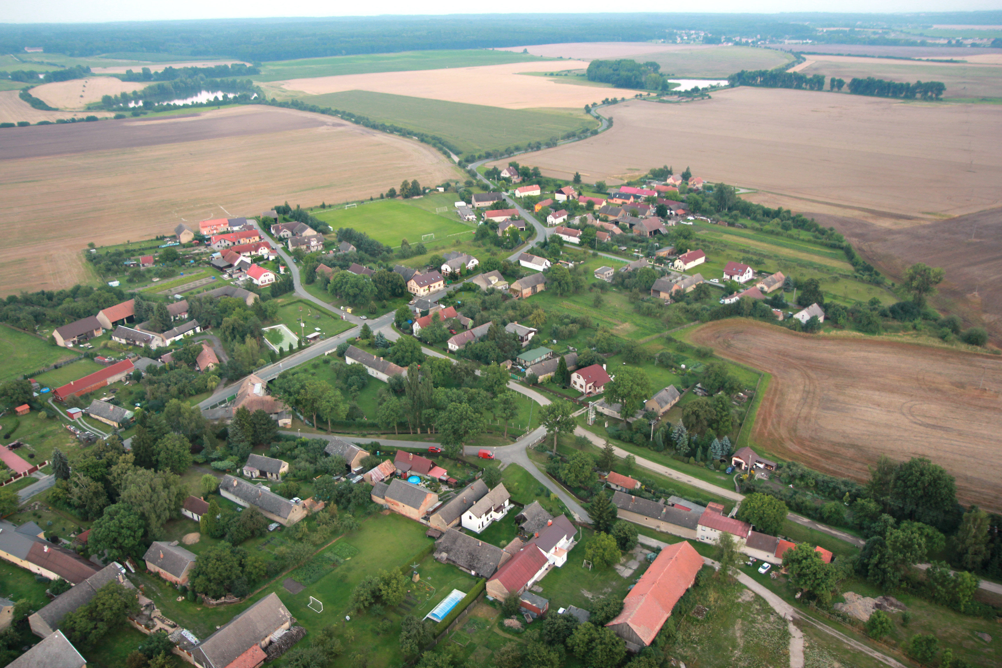 South part of Pěčice village, Czech Republic